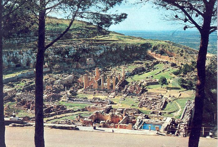 Ruins of Cyrene.